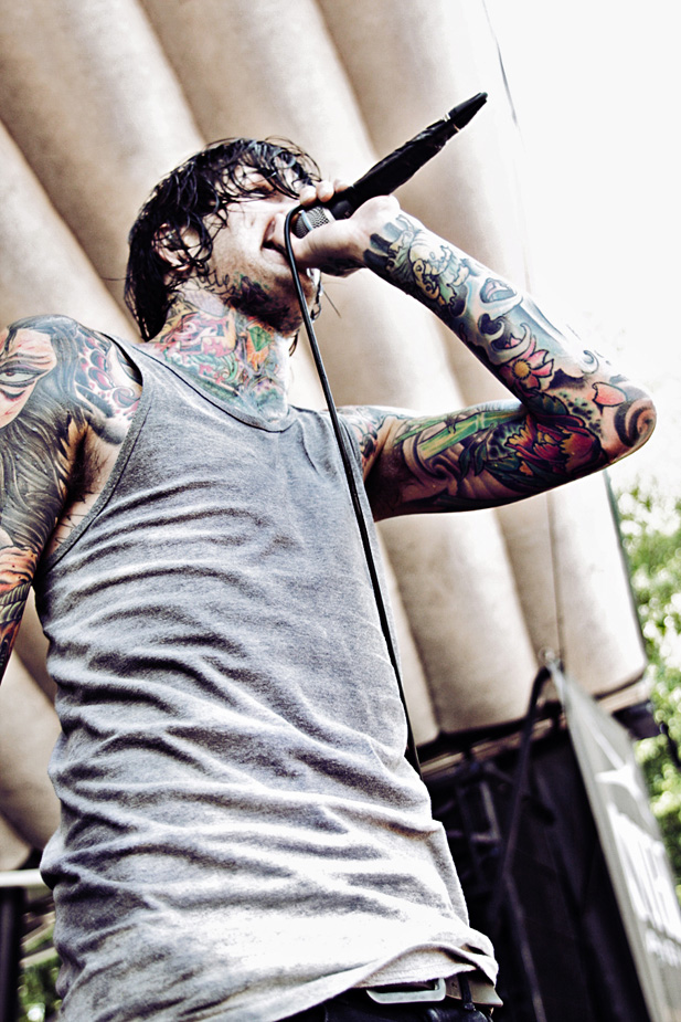 Suicide Silence